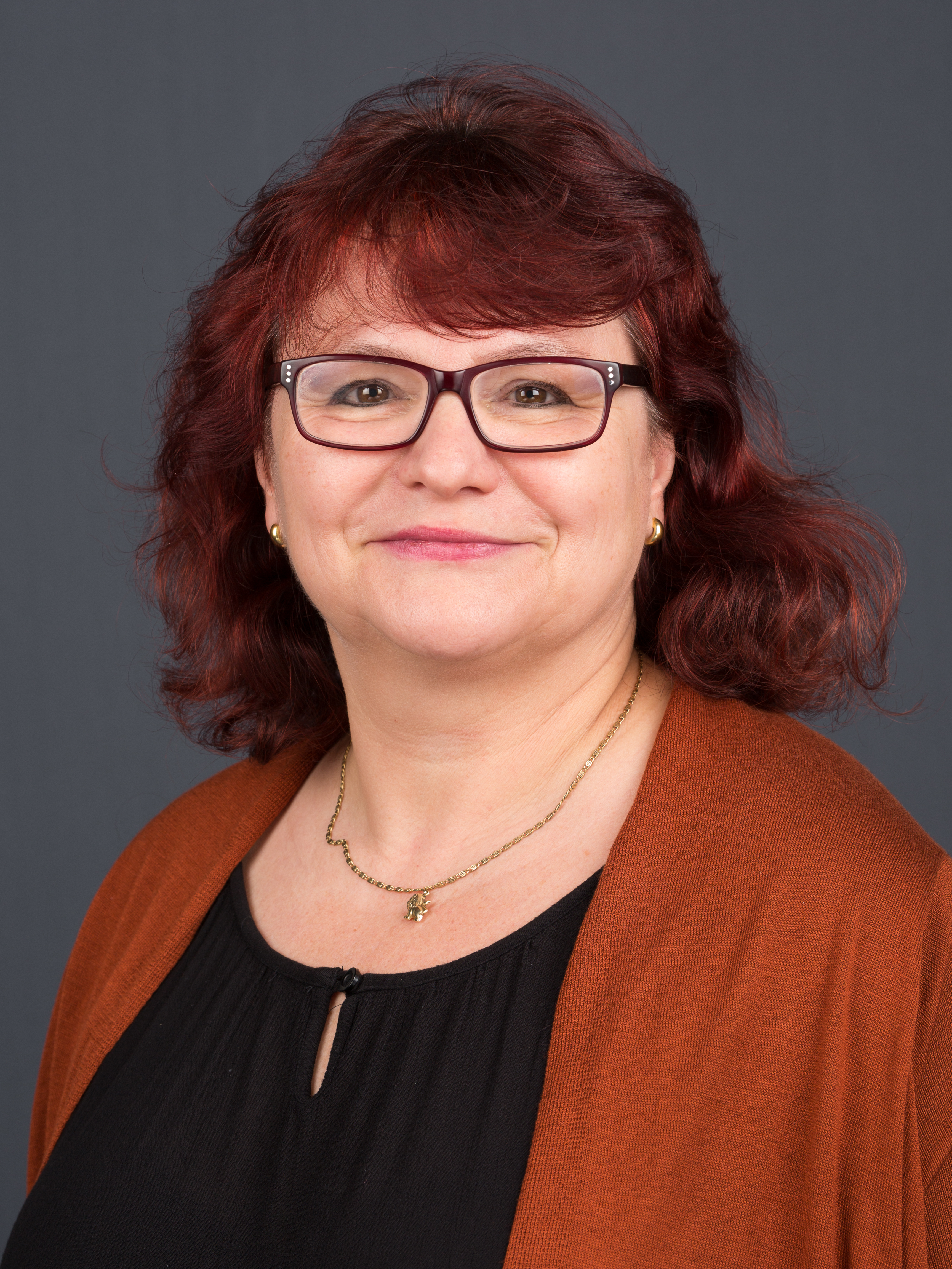 Marion Junge, Member of the Parliament of the Free State of Saxony